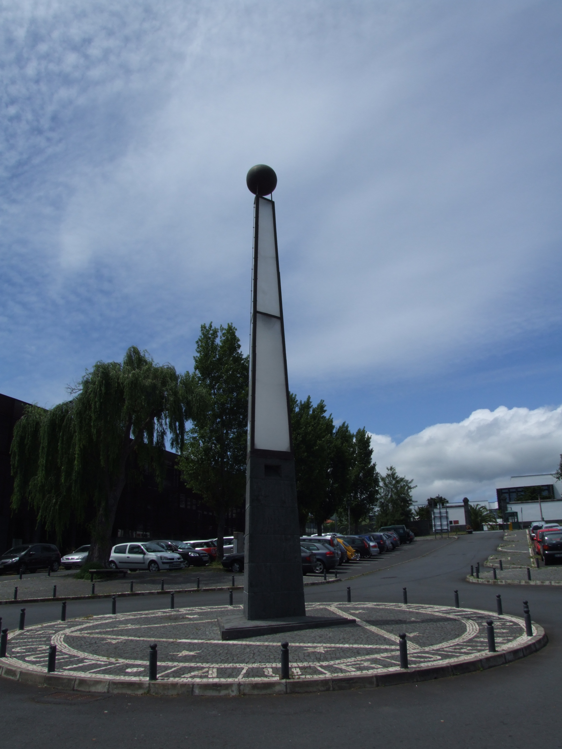 Ponta Delgada, Sao-Miguel, Azores, Portugal